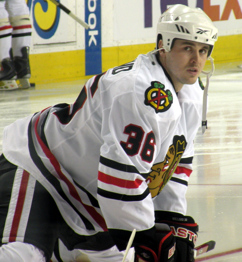 Chicago Blackhawks forward David Bolland during warm up prior to a National Hockey League playoff game against the Calgary Flames, in Calgary.